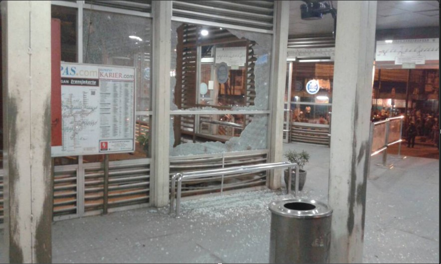 The aftermath of the attack in Kampung Melayu This file is in the public domain in Indonesia, because it is published and distributed by the Government of Republic of Indonesia, according to Article 14 item b of the Indonesia Copyright Law No 19, 2002. There shall be no infringement of Copyright for: publication and/or reproduction of the symbol of the State and the national anthem in accordance with their original nature; publication and/or reproduction of anything which is published by and/or behalf of the Government, except if the Copyright is declared to be protected by law or regulation or by statement on the work itself or at the time the work is published; or repetition, either in whole or in part, of news from a news agency, broadcasting organization, and newspaper or any other sources, provided that the source thereof shall be fully cited.